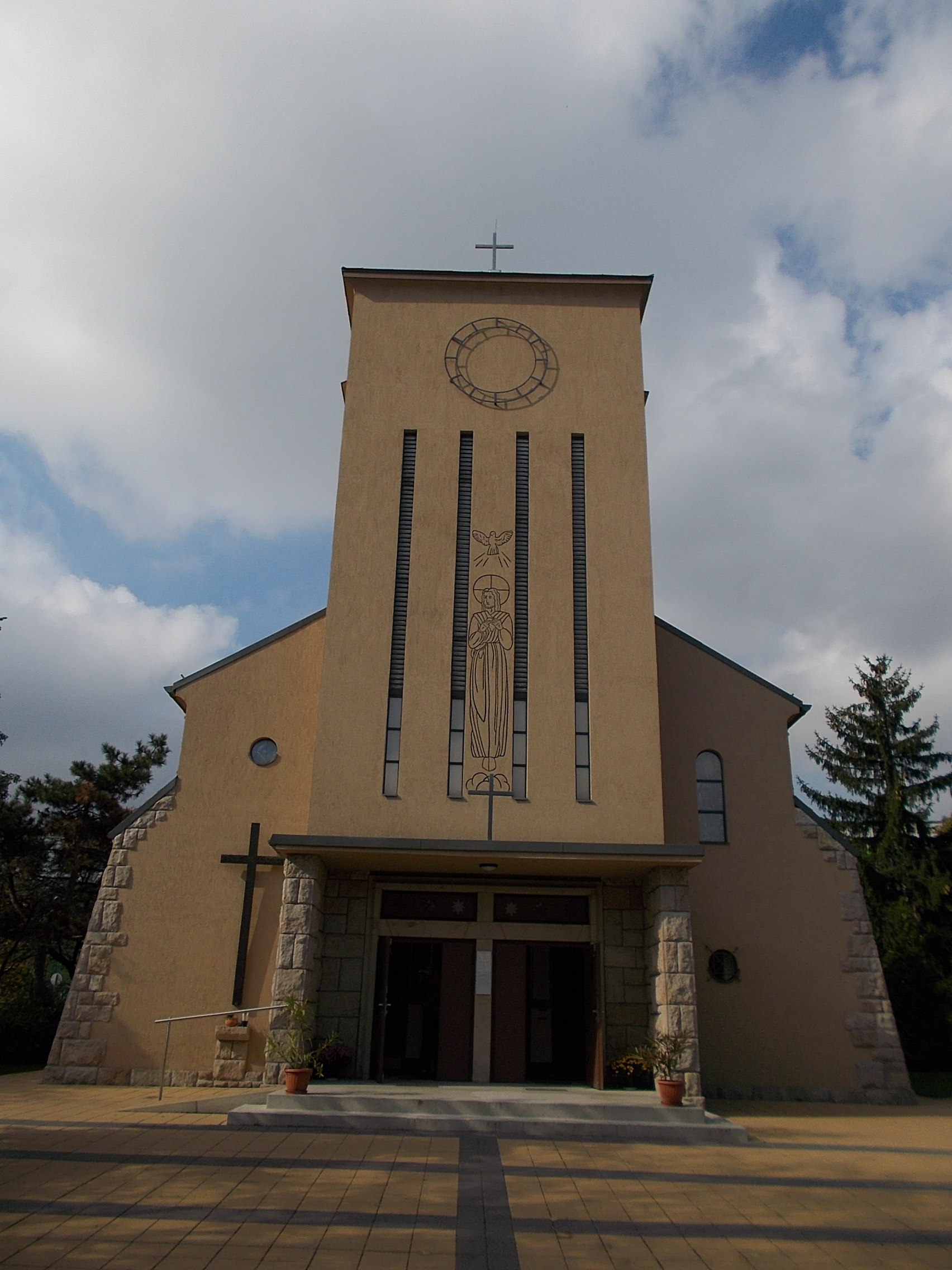 Felső-krisztinavárosi Keresztelő Szent János Plébánia templom sgraffitoi az oltár részen. A templom Fiala Ferenc és Lehoczky György építészek tervei alapján épült 1934-ben. Az templom harangtornyát két sgraffito díszíti, a Jézus szent szíve és a Szent Kristóf a kis Jézussal. . - Magyarország, Budapest, XII. kerület, Apor Vilmos tér 9